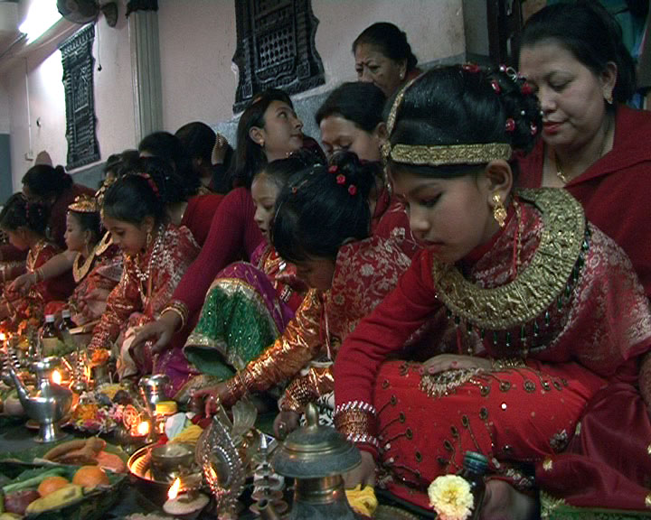 Performed by Newars of Nepal